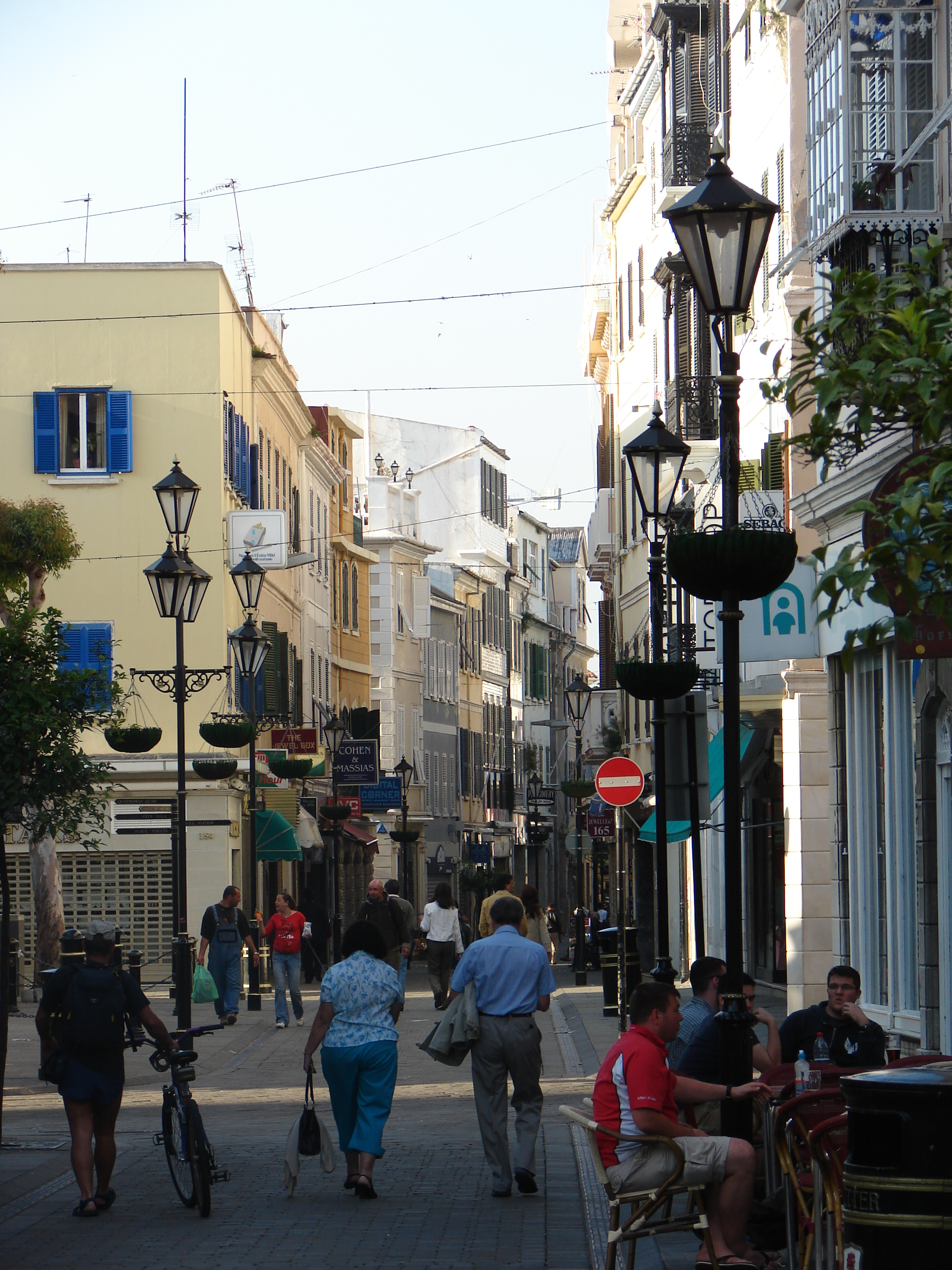 A image of Main Street in Gibraltar taken by myself.